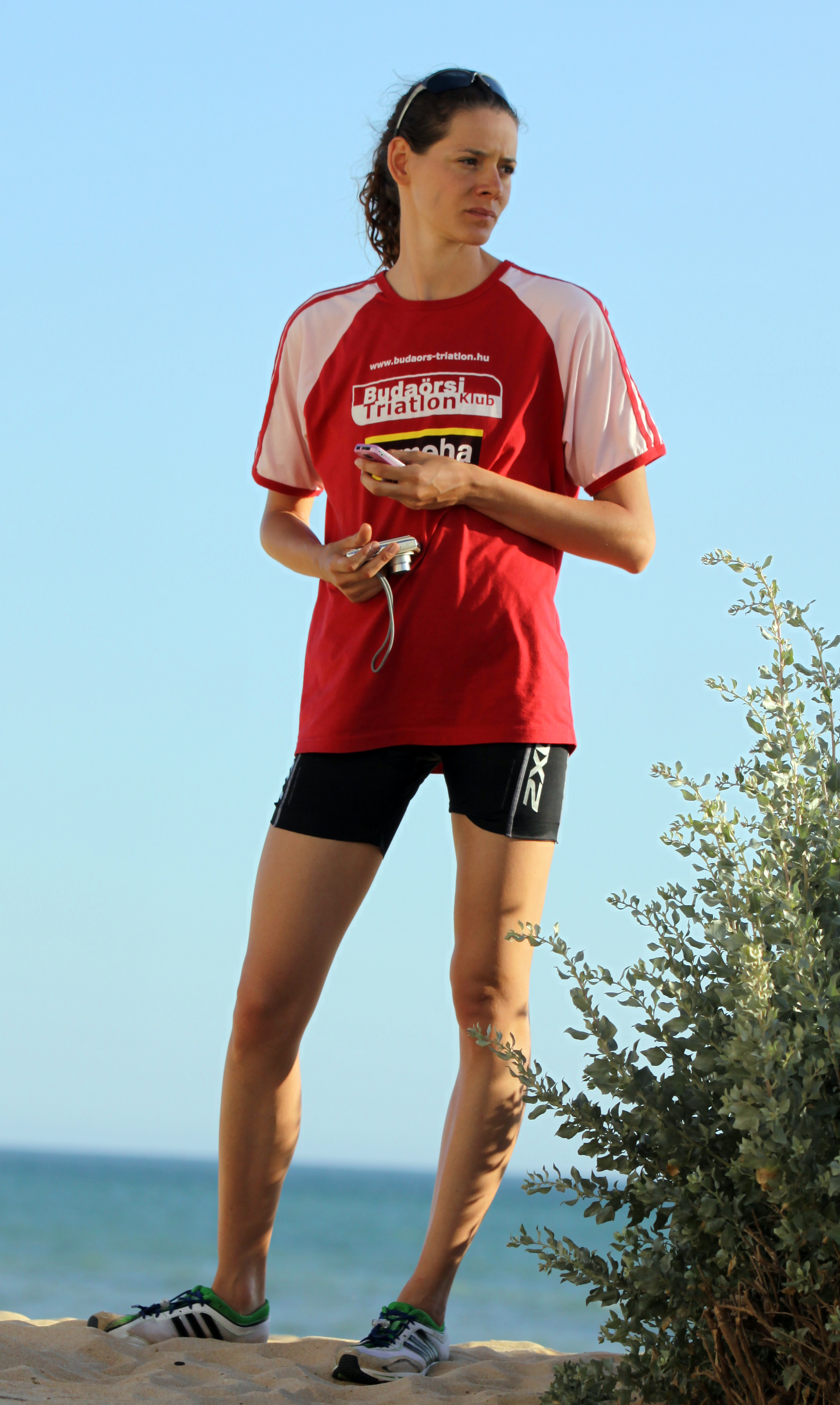 Margit VANEK immediately after the European Cup elite triathlon in Quarteira, 2011.